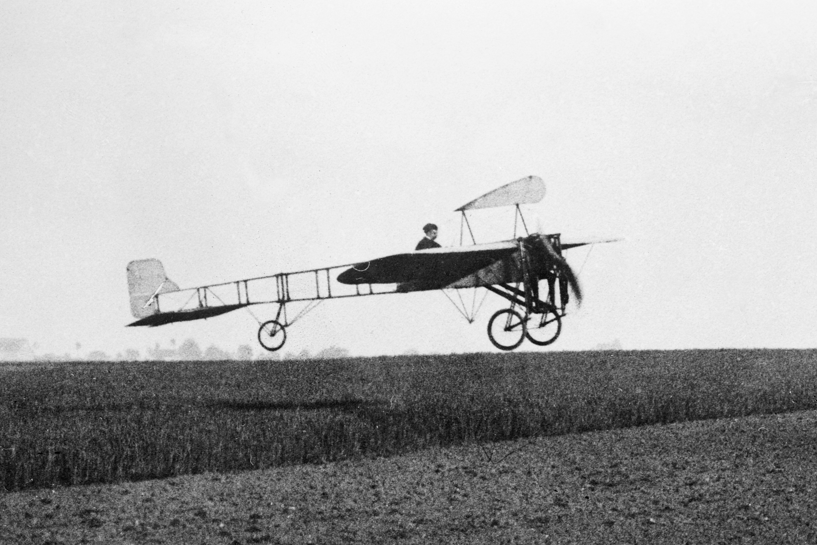 Louis Blériot in flight over field.